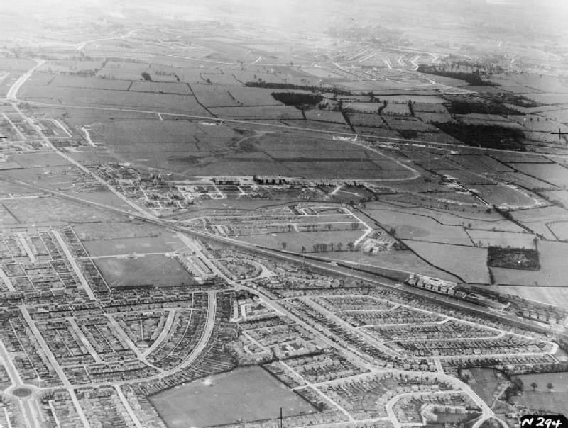 Aerial Views in the United Kingdom, 1941 - 1942 RAF Northolt, Middlesex, from the north. Ruislip Manor and Ruislip Gardens are in the foreground.